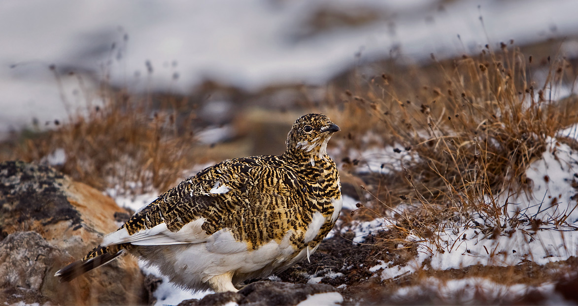 Svalbard rock ptarmigan(female)Lagopus muta hyperborea